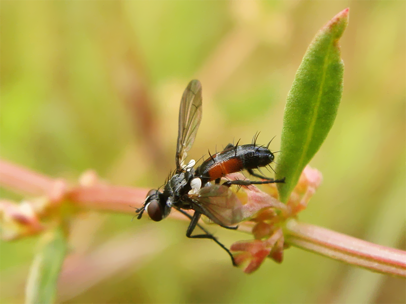 Cylindromyia brassicaria in Ansião, Leiria, Portugal